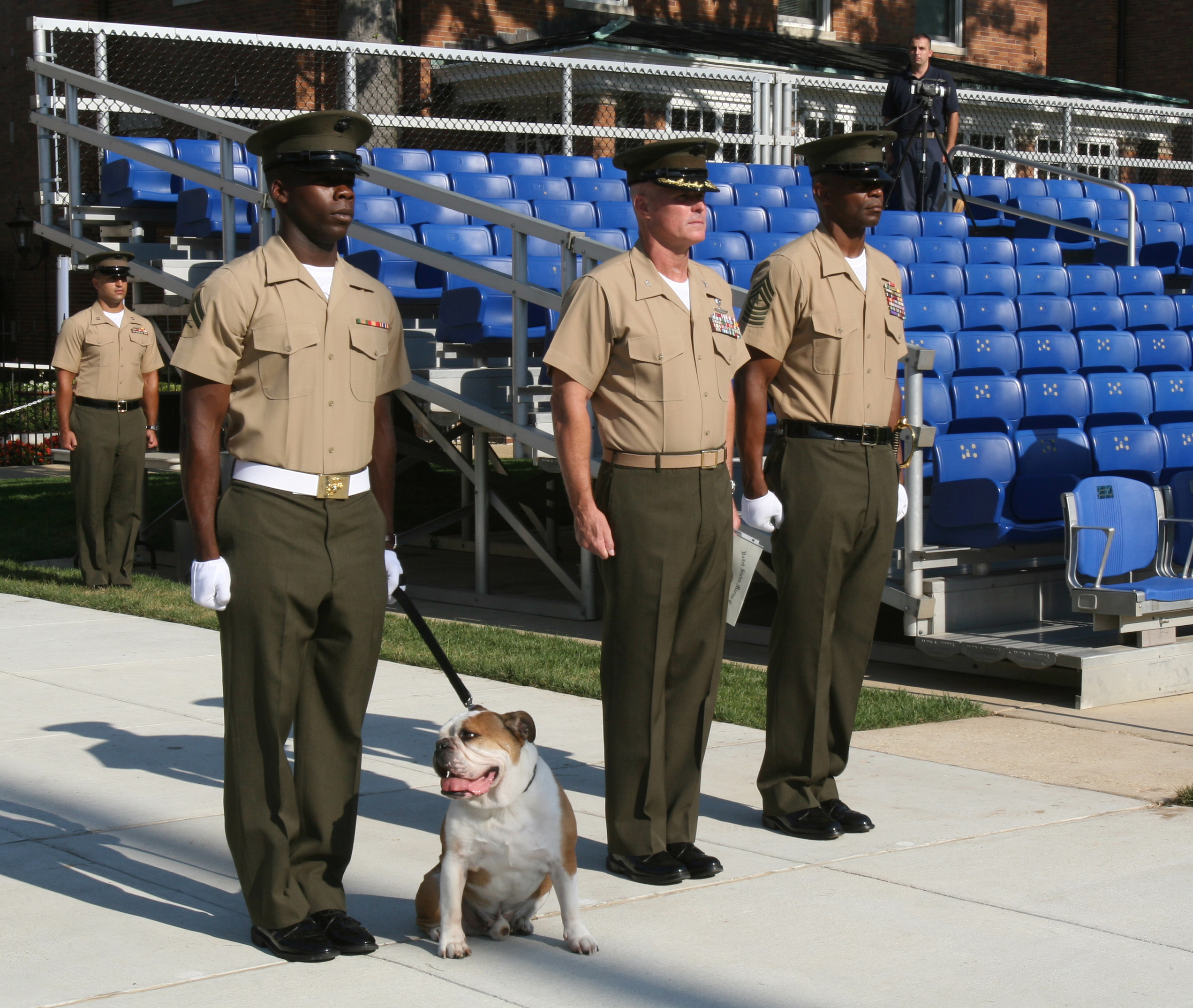 Sgt. Chesty XII, the official mascot of Marine Barracks Washington, stands at attention as his retirement certificate is read during his retirement ceremony at Marine Barracks Washington, July 25. Chesty served for 40 dog years as mascot.